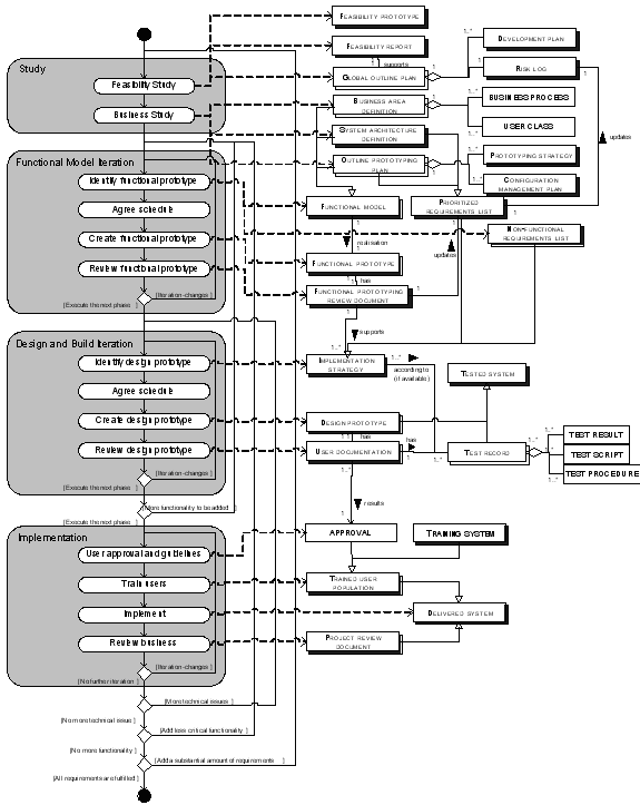 Process-data diagram of DSDM Project Life-cycle author: Senoaji Wijaya